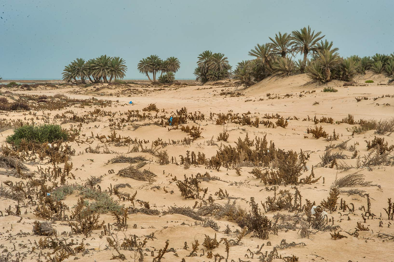 Beach sands in the vicinity of Al Hamala (Al Hamlah) Water Well near Umm Bab, Qatar.